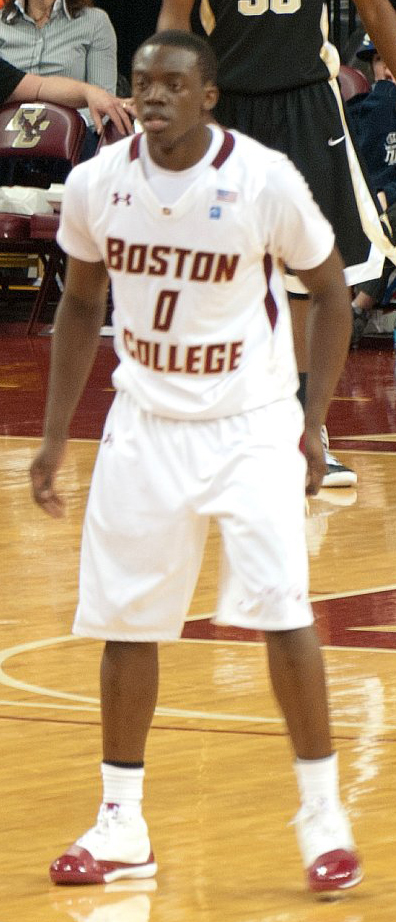 Reggie Jackson, basketballer of Boston College.